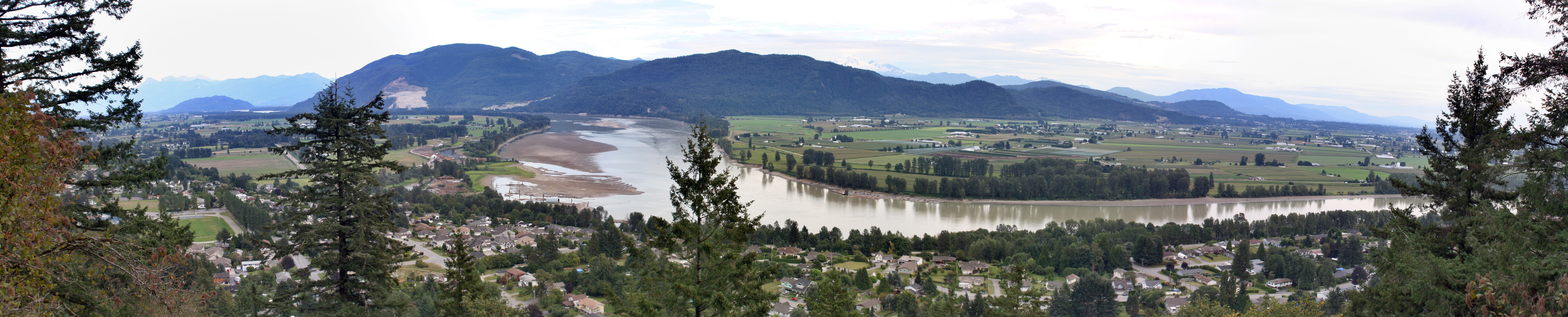 Photo taken by myself. Panoramic view of Fraser River as seen from the grounds of Westminster Abbey, above Hatzic in Mission. Camera: Canon EOS Rebel XS, with the Canon EF 28-80mm lens (II USM). Stitched using Hugin from 5 photos, retouched with Photoshop.